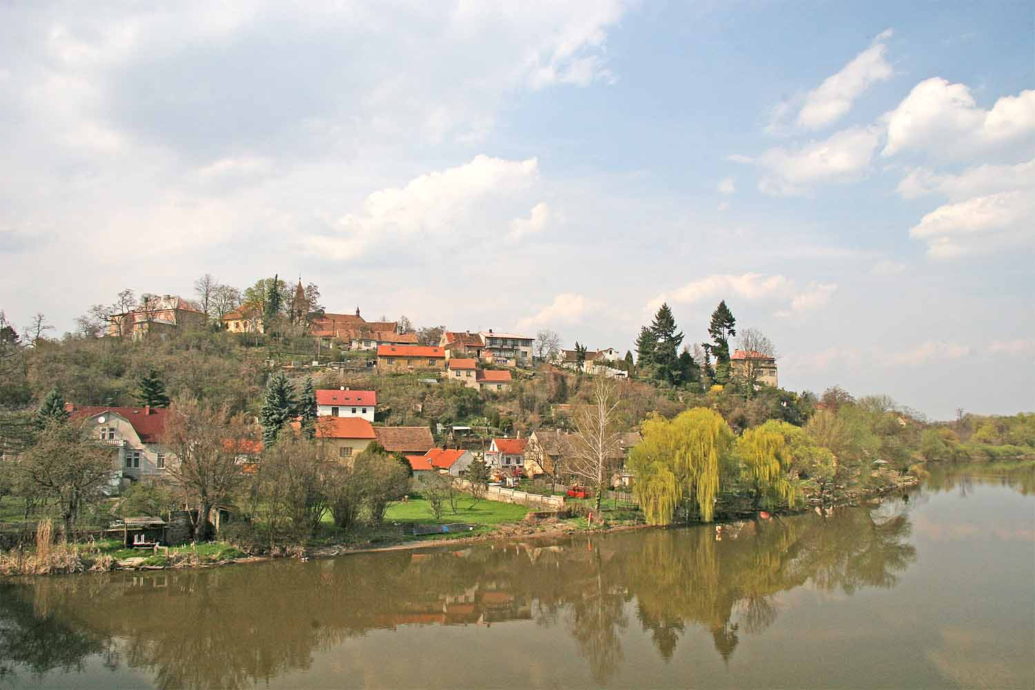 A view of Týnec nad Labem, Czech Republic